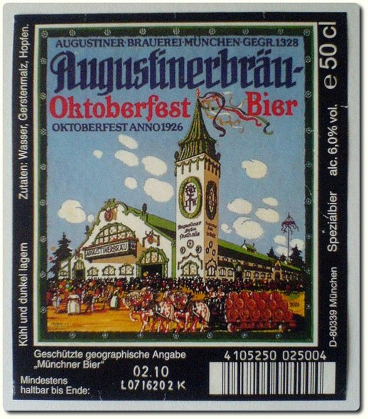 Beer Label Augustinerbrau